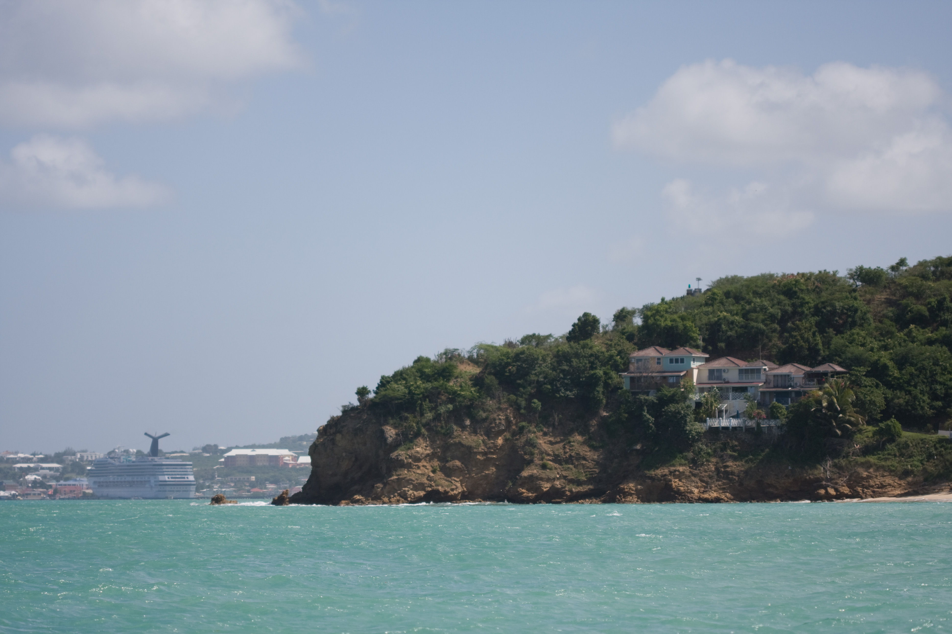 Sailing back to St. John's harbor, Antigua